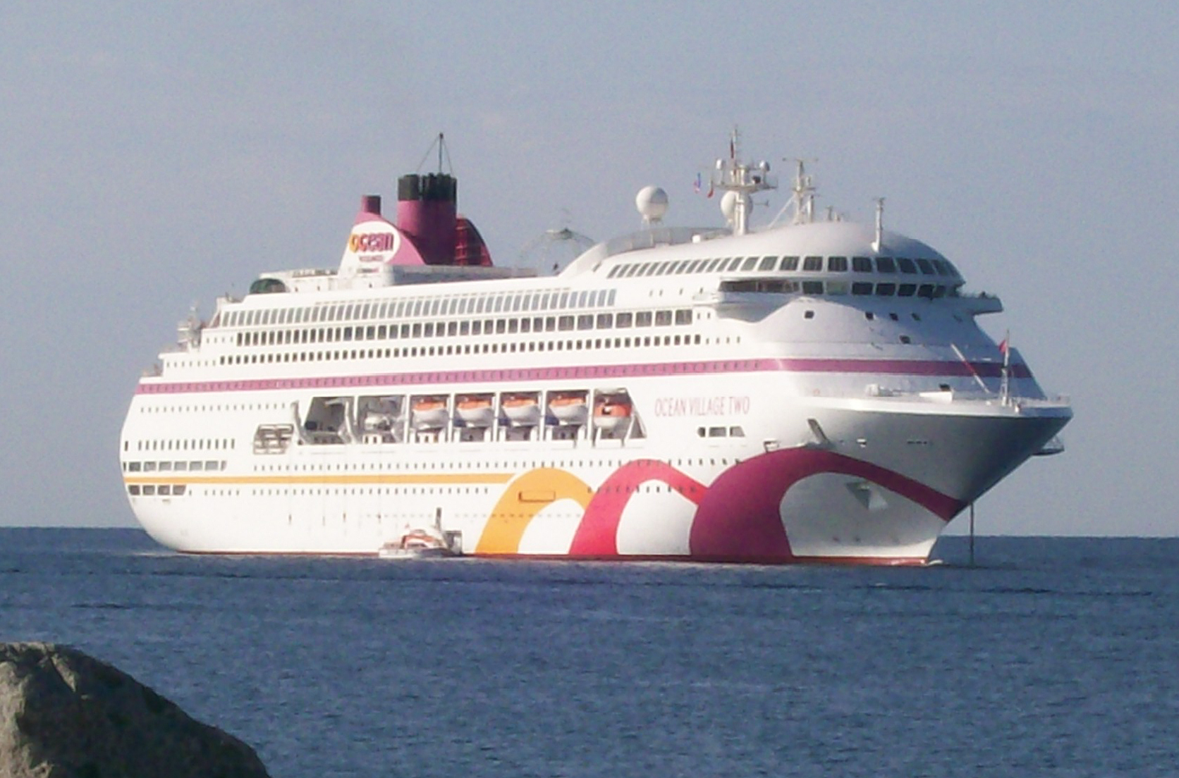 The cruise ship Ocean Village Two in St Raphael